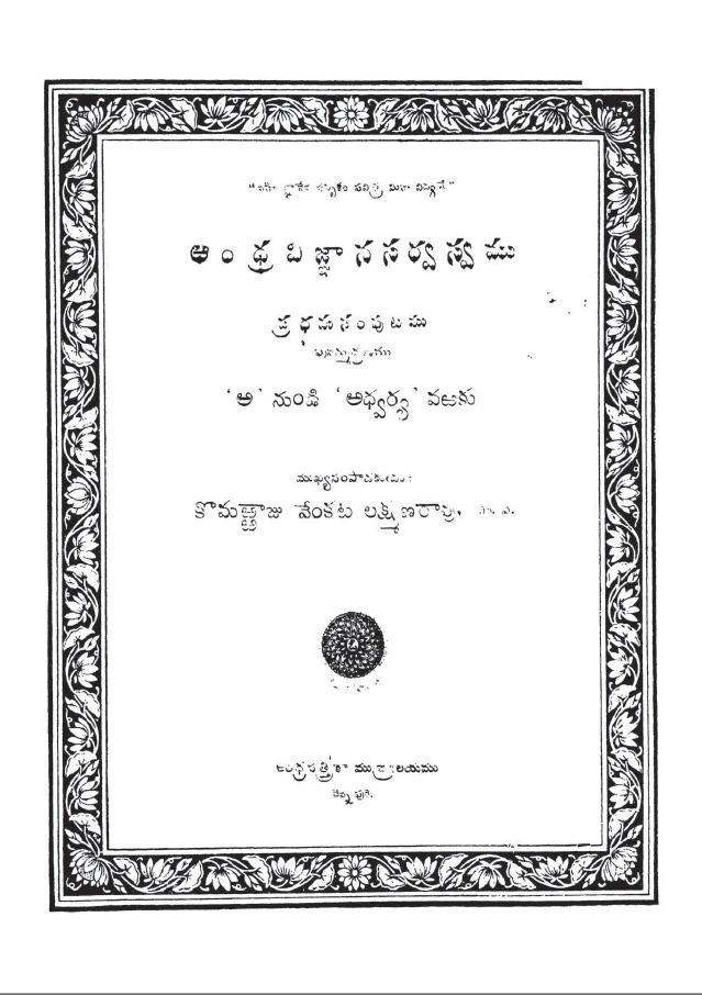 Andhra Vignana Sarvaswamu Vol1 Cover